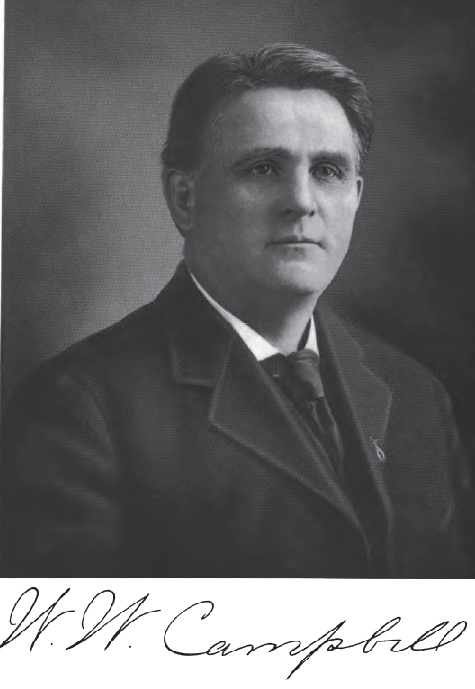 an Ohio politician named William Wildman Campbell